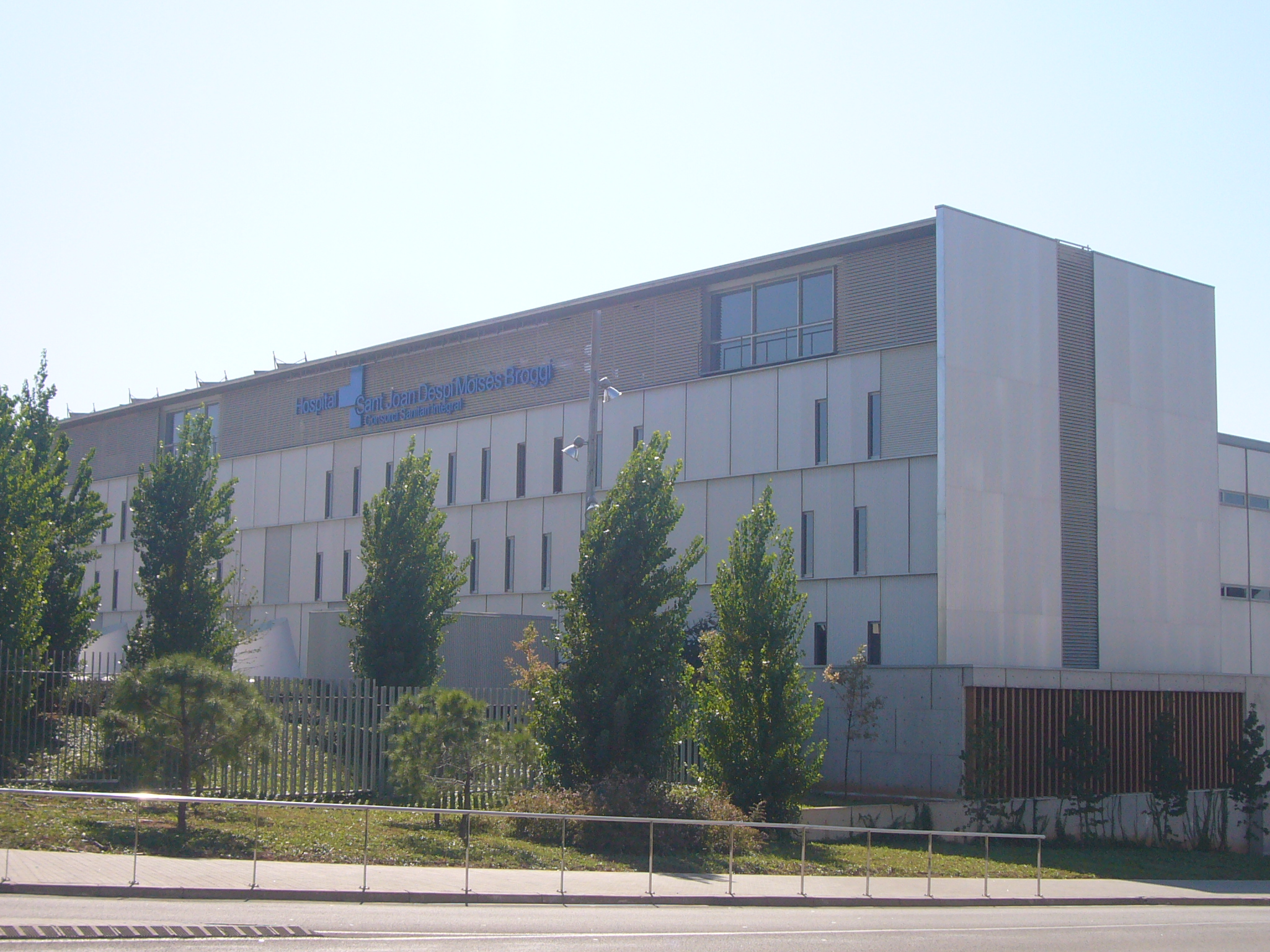 Hospital de Sant Joan Despí Moisès Broggi